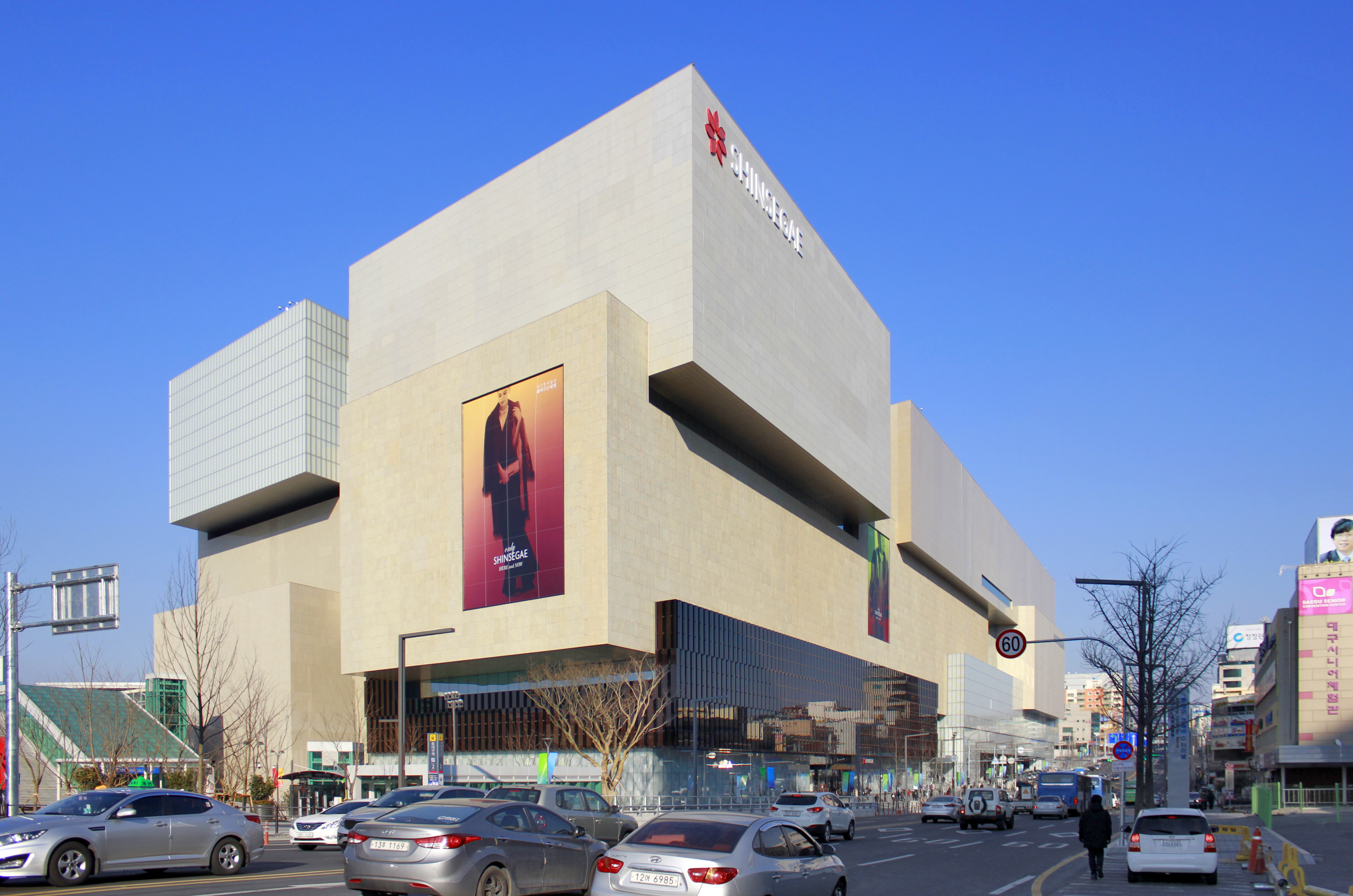 Dongdaegu Intermodal Centre